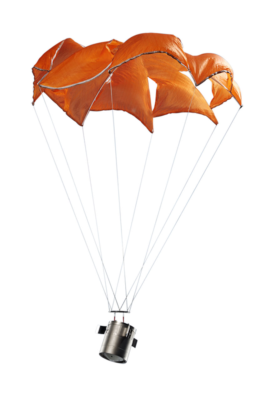 SMArt SubMunition for Artillery - by GIWS - submunition with parachute